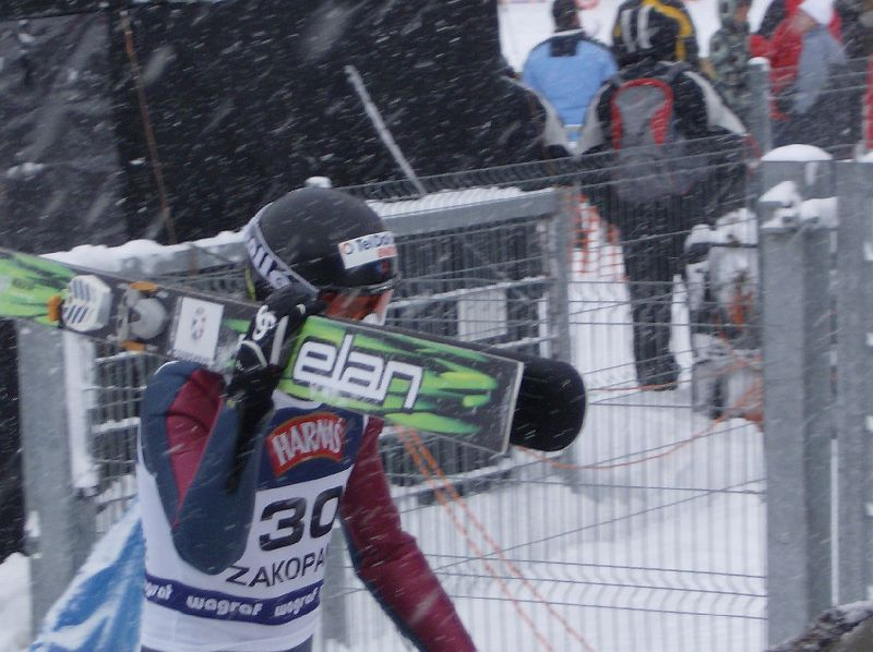 ski jumper Emmanuel Chedal from France during the World Cup in Zakopane on 27-1-2008